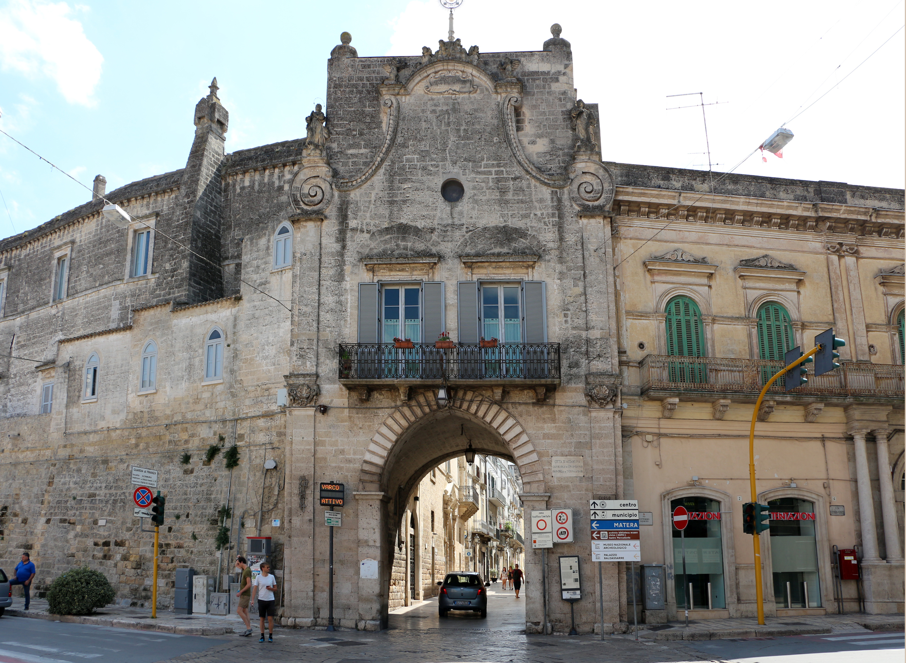 Altamura